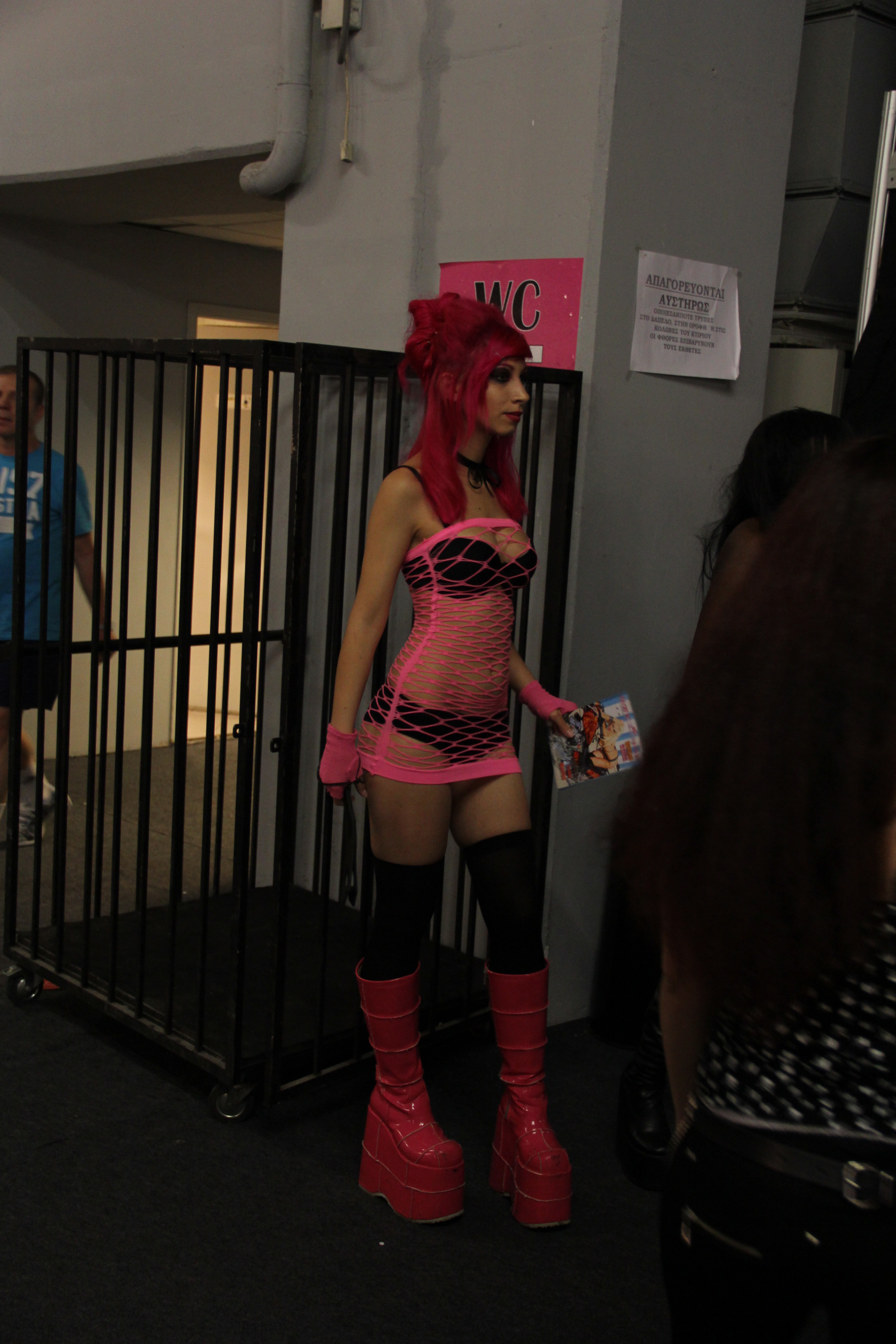 At Erotic Dream 2012, a adults-only sex industry convention in Athens, Greece held at the EKEP exhibition center in Metamorfosi, Athens, a yearly public event and adult entertainment convention which showcases the latest developments in the adult industry in Greece and features dance shows and other happenings. The Erotic Dream event is colloqually known as Erotica. Photo is made available under: Creative Commons Zero License 1.0 (public domain dedication) and Creative Commons Attribution 3.0, choose any license of your choice.